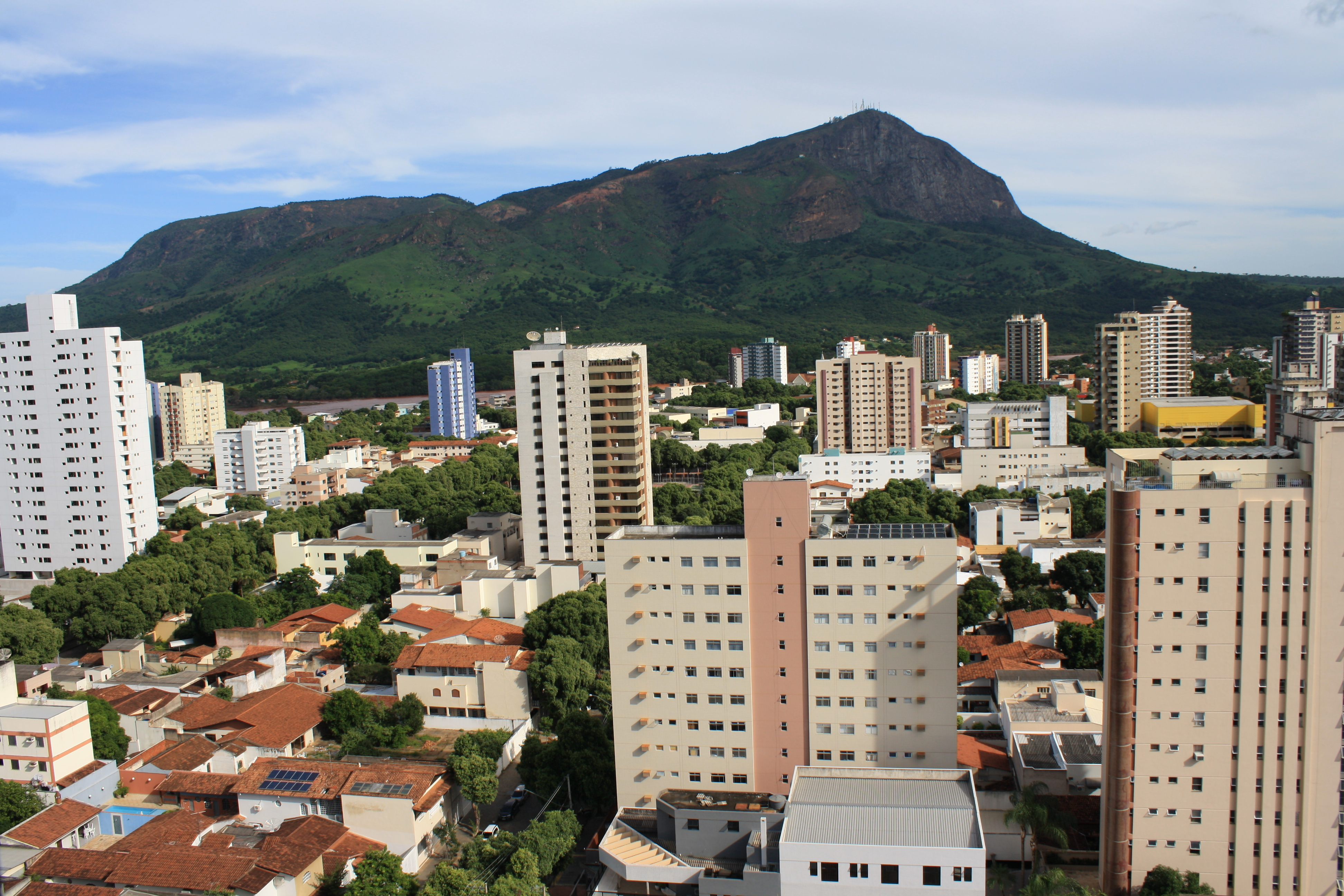 Governador Valadares city